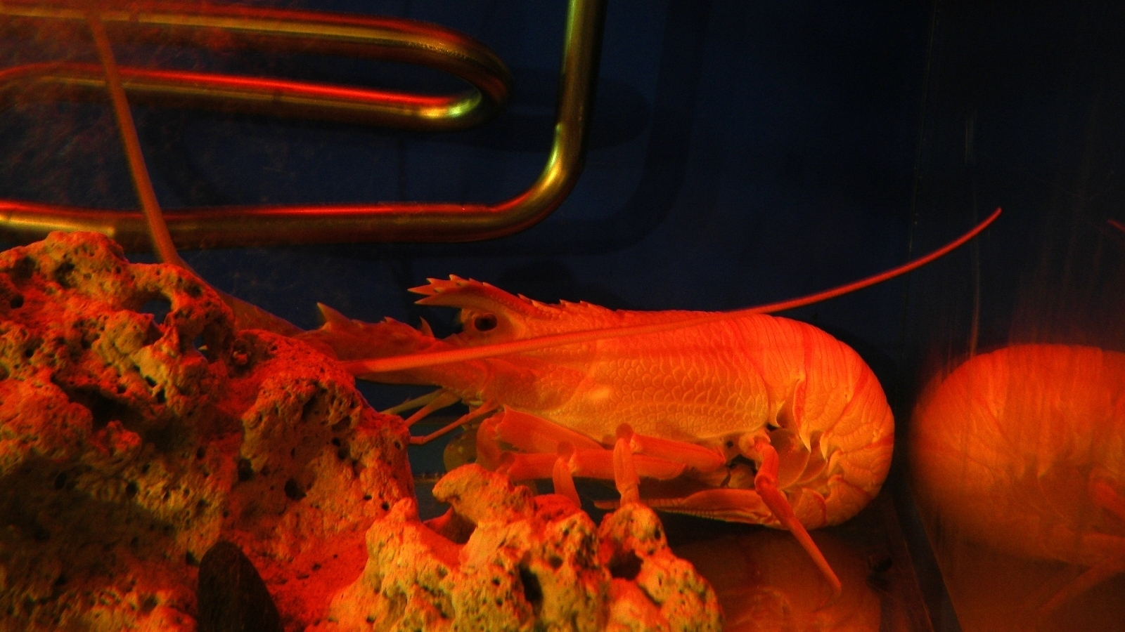 Nupalirus japonica (syn. Justitia japonica) (Kubo, 1955) at Nagasaki Penguin Aquarium